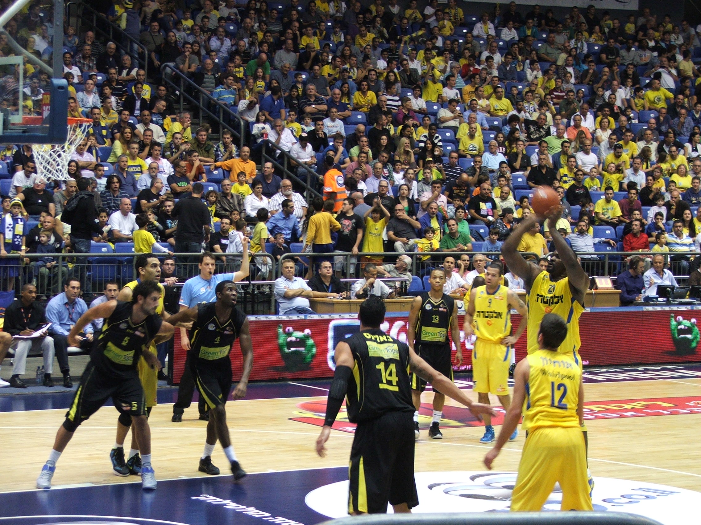 Maccabi Tel Aviv VS. Barak Netanya 31/10/11